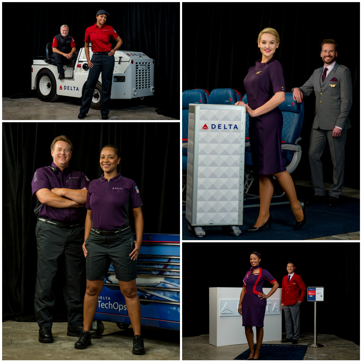 Montage of new Delta Air Lines employee uniforms